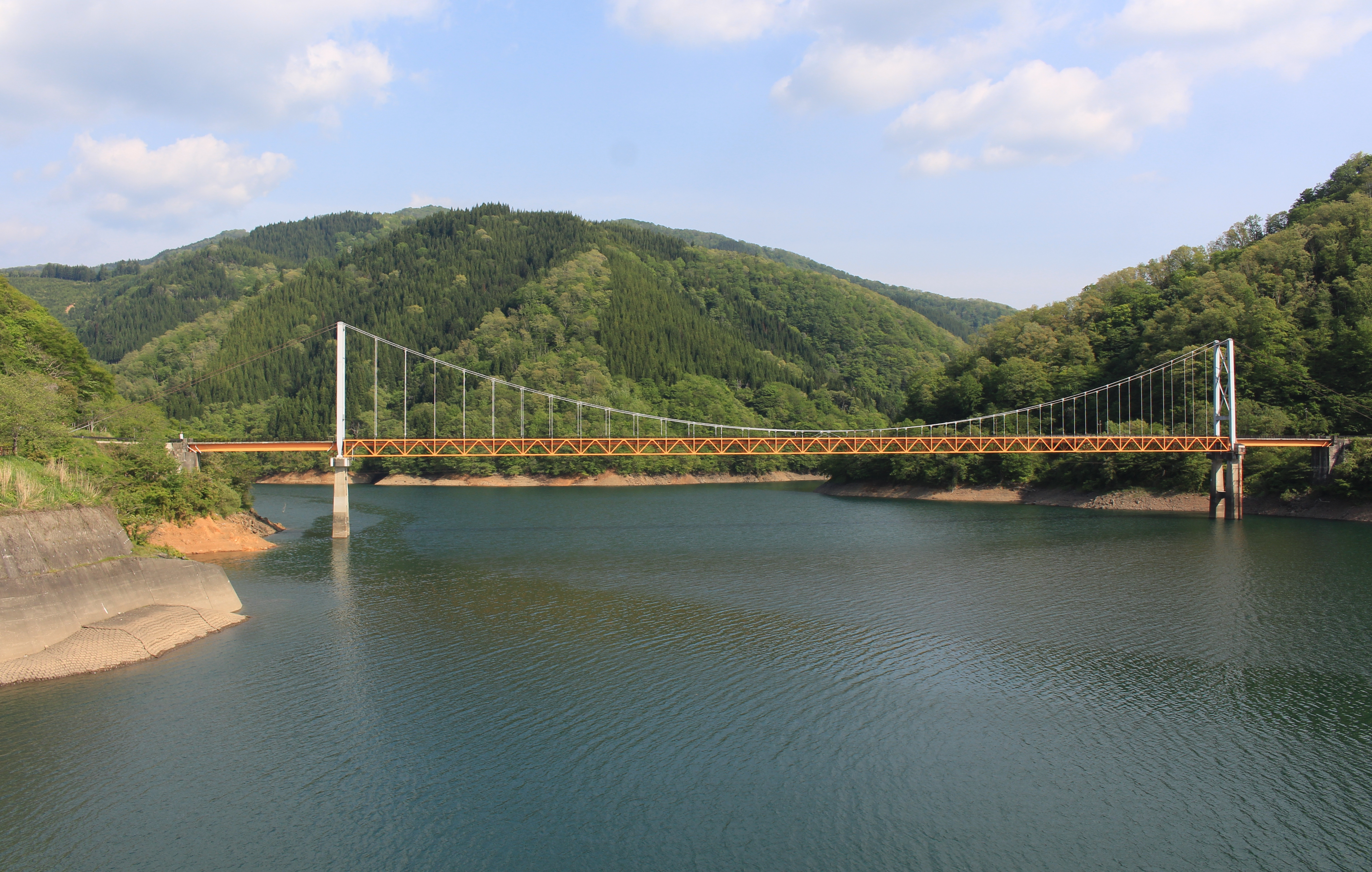 Hakogase Bridge (Hakogase-bashi), a bridge of Fukui Prefectural Road Route 230 over Lake Kuzuryu in Ōno, Fukui prefecture, Japan.